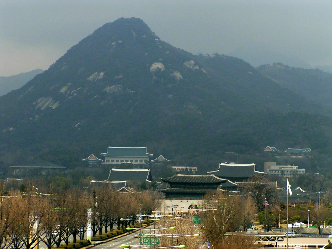 This is from the MediaCT offices in knore. View over the Gyeongbokgung (Palace) and the Blue House (Residence of the President) at the foot of Bukhansan in Seoul, South Korea.